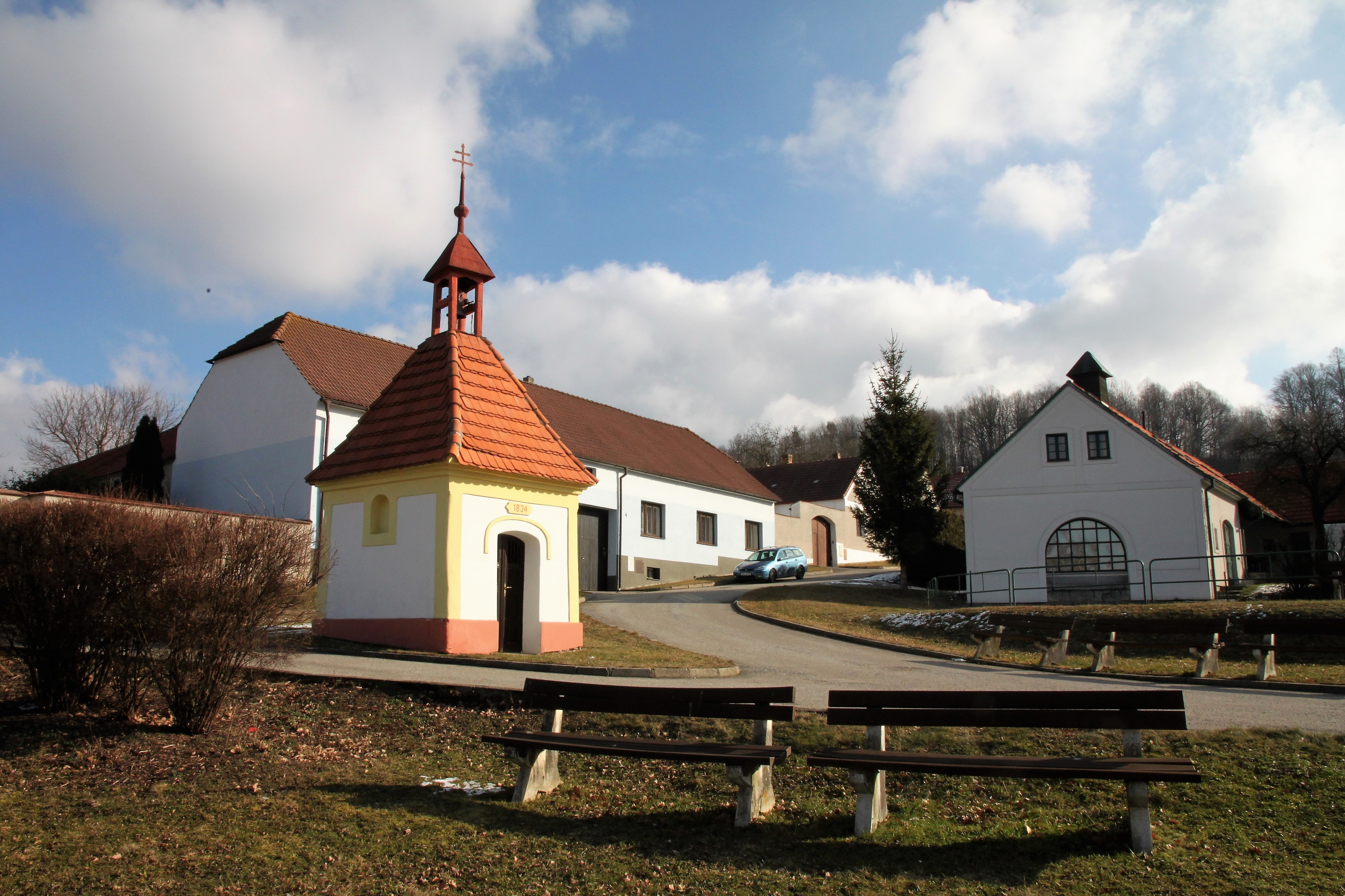 Chapel of St. Anthony and Our Lady from 1834 in the village of Dubičné, České Budějovice District, Czechia